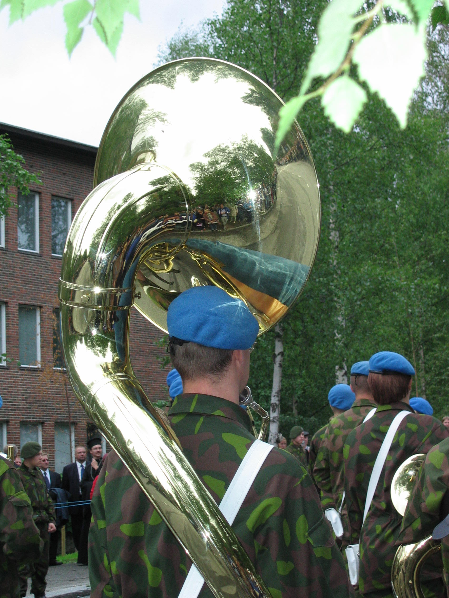 The military band of Kainuu marching in Nurmes, Finland.